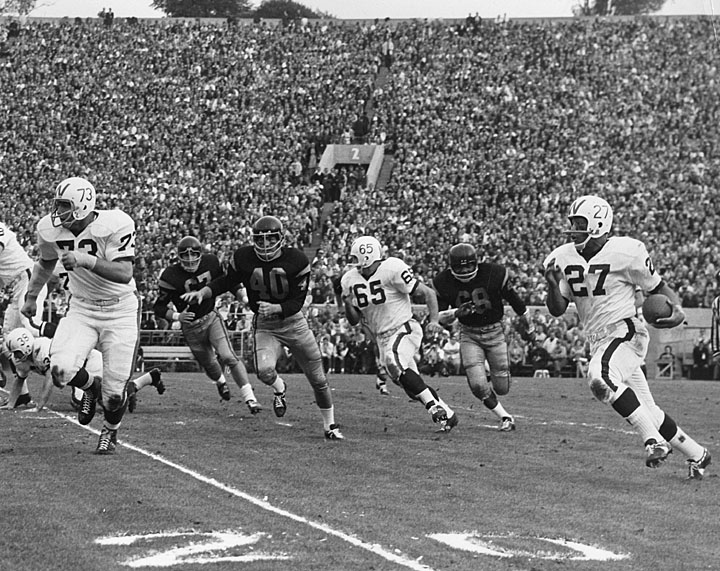 1963 Rose Bowl Game Action with Lou Holland of the University of Wisconsin--Madison Badgers running around the end. University of Wisconsin Digital Collections